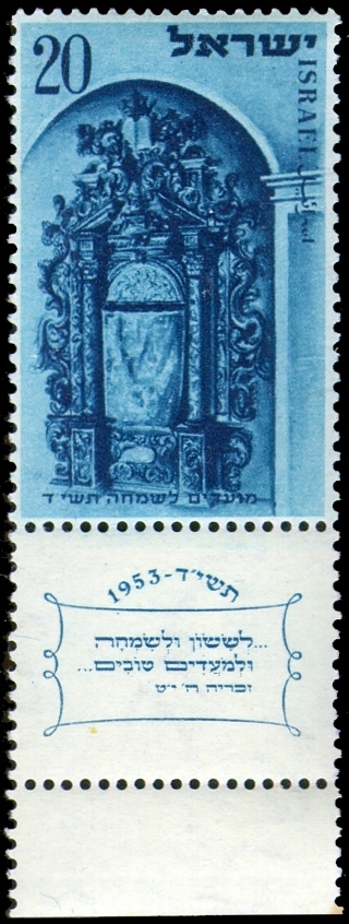 Joyous Festivals 5714 stamp - 20 mil. Holy Arks in a synagogue in Jerusalem Inscription on tab: "...Joy and gladness, and cheerful feasts" Zechariah VIII, 19.